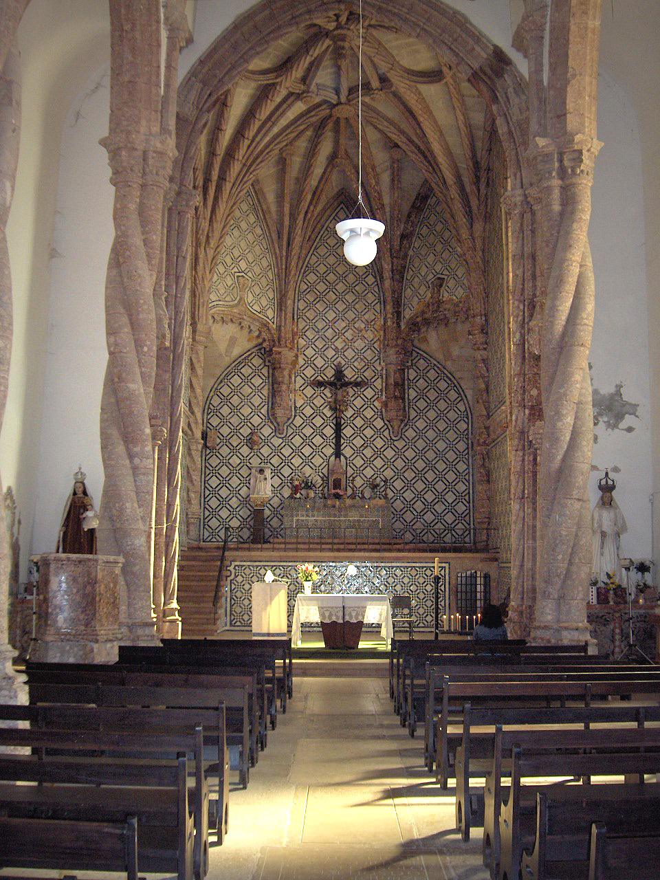 Nave and choir of the Jesus church(Igrejia de Jesus); Setúbal, Portugal